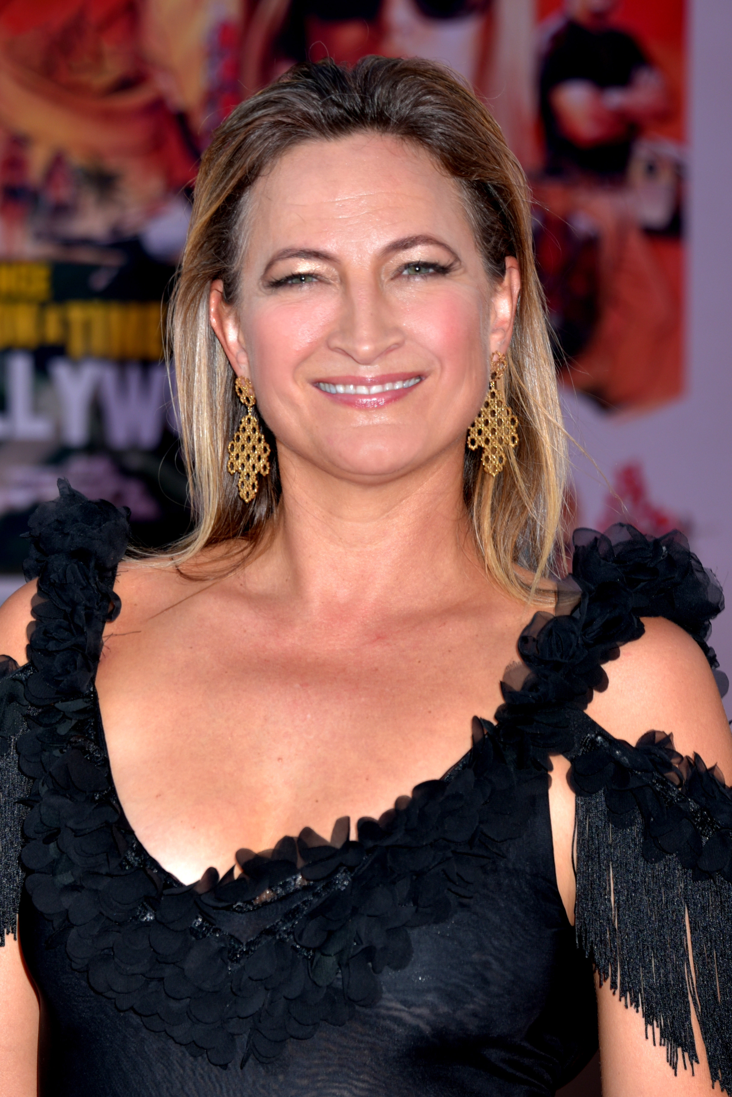 Zoe Bell arrives for the "Once Upon A Time in Hollywood" premiere in Hollywood, California on July 22, 2019